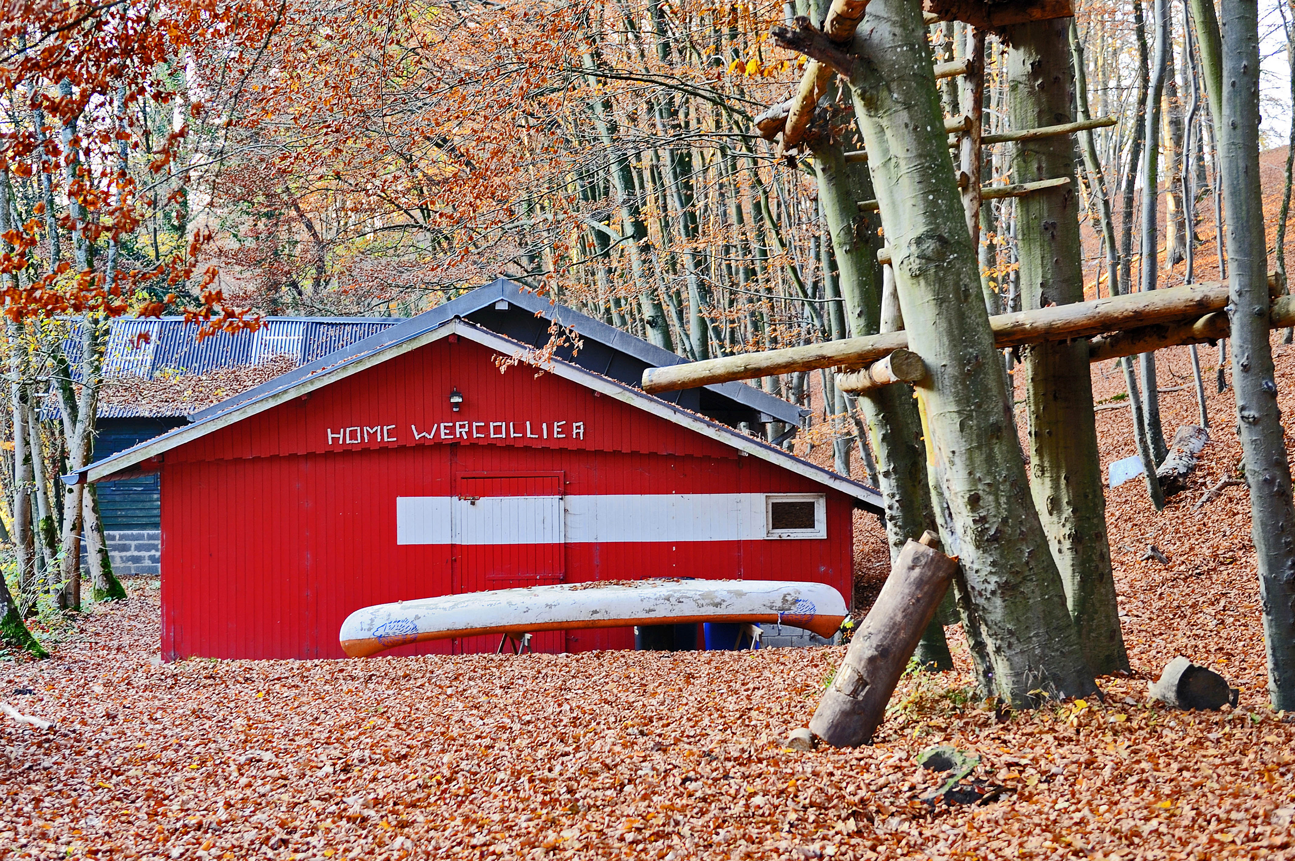 Home Wercollier: the home of the scout group Däreldéieren at Bridel in Luxembourg